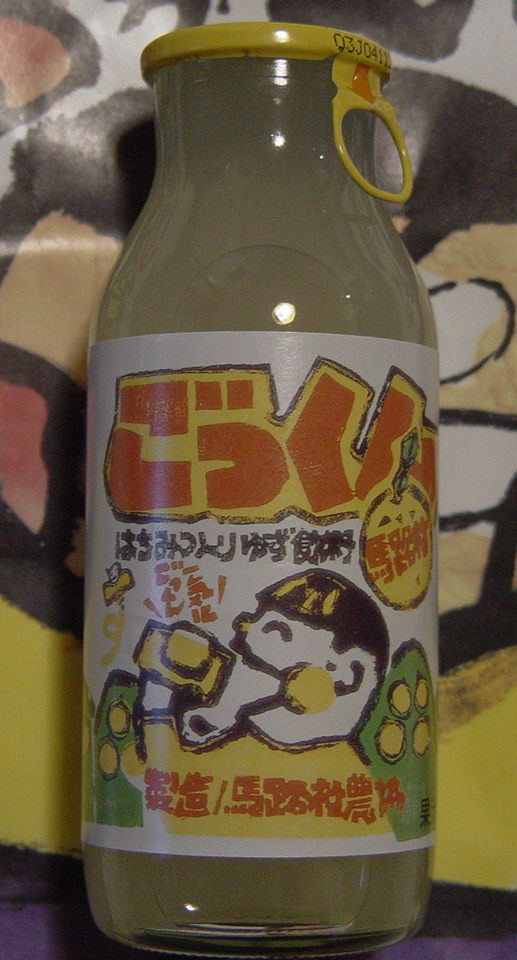 Yuzu drink "Gokkun Umajimura". Produce of Umaji, Kōchi, Japan.